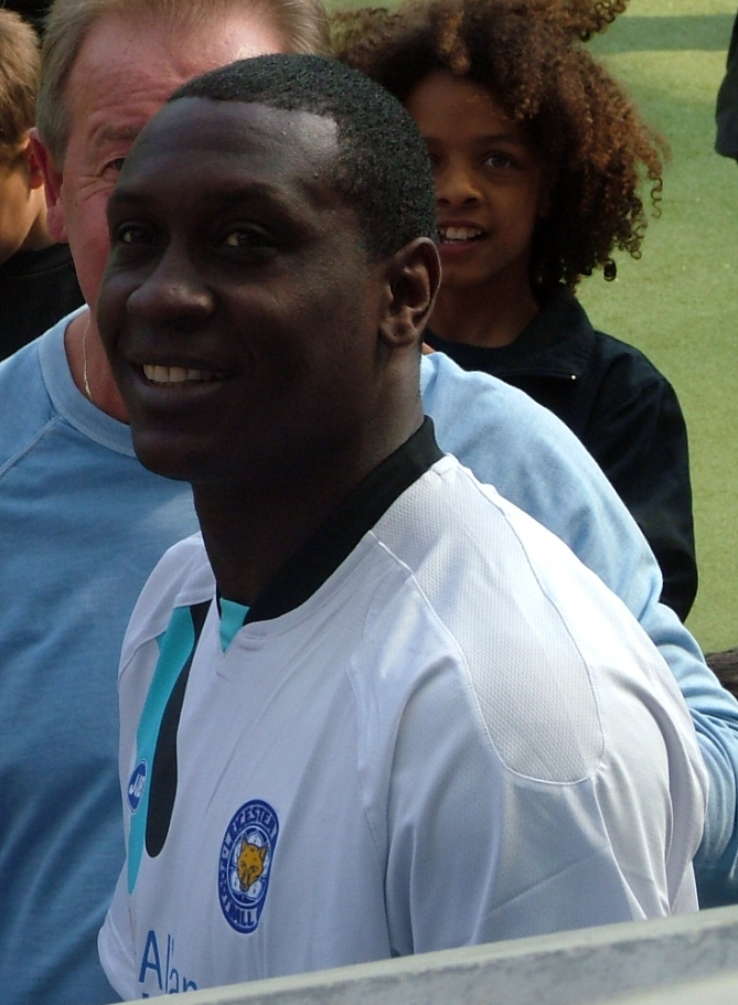 Emile Heskey attending an event at the Walkers Stadium, Leicester on 29 April 2006